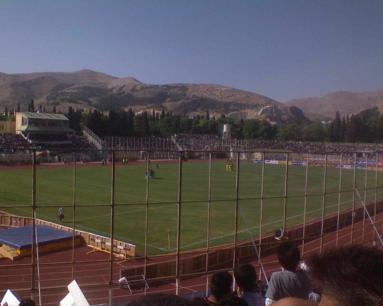 Hafezie Stadium. A game between Fajr Sepasi & Aluminium Hormozgan